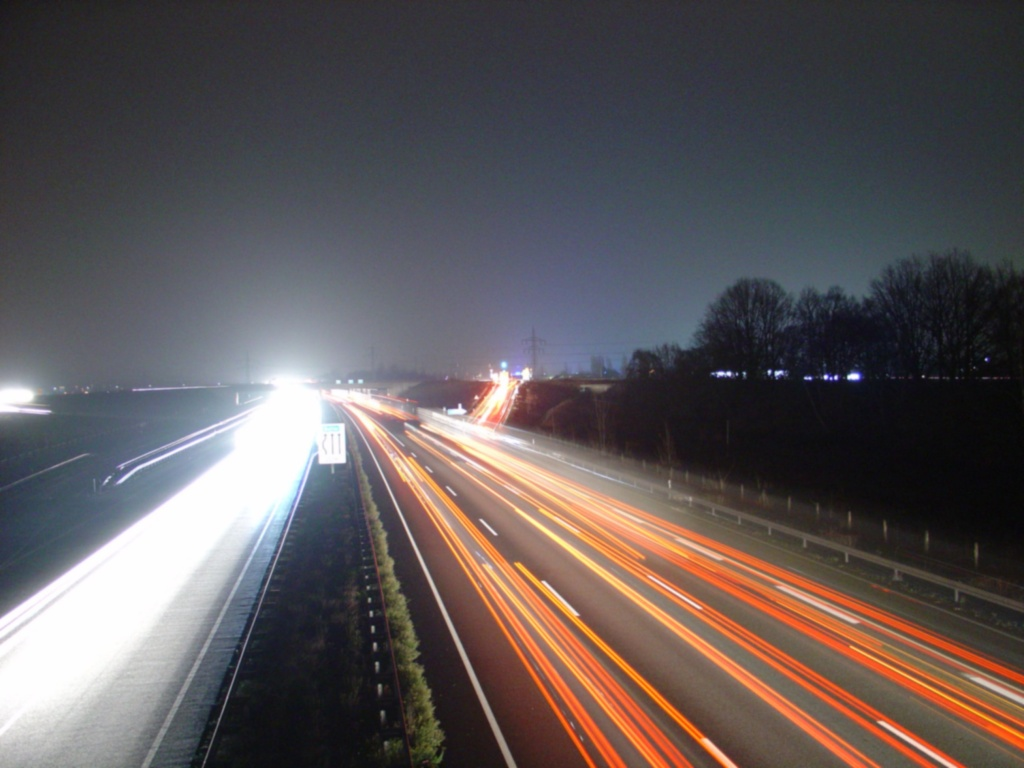 Motorway at night (exit Lehrte)